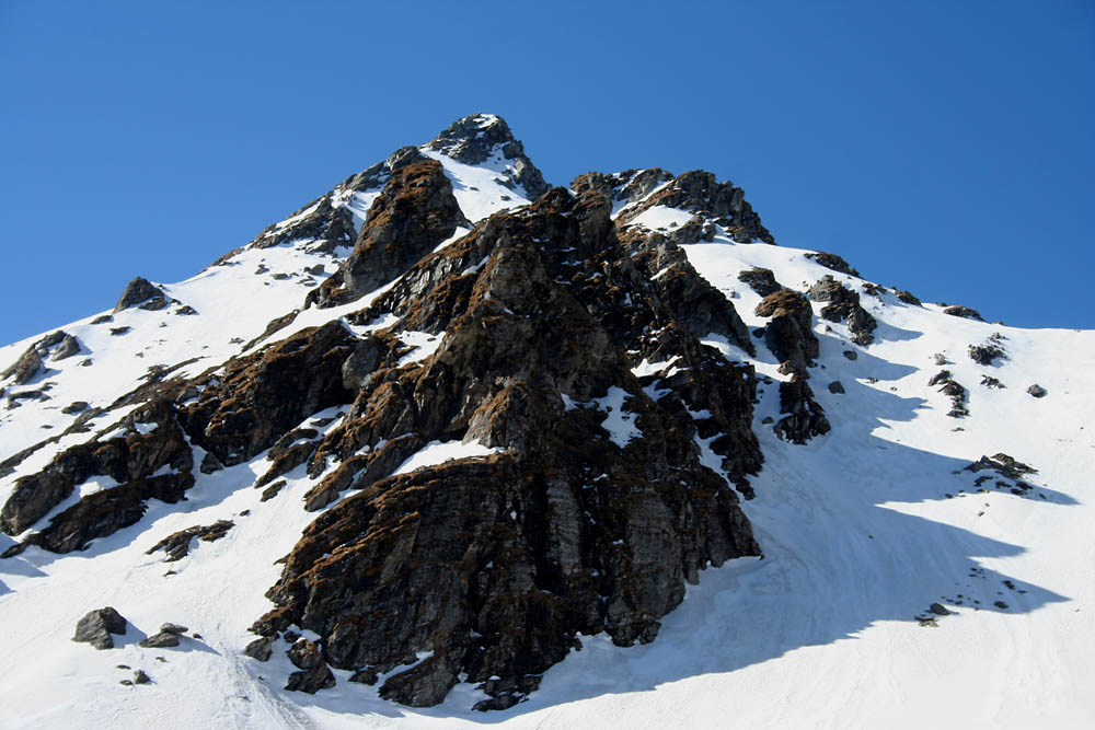 Taken from below at 8.33 a.m. on 10/5/07 while crossing Sar Pass Trek in Kullu District of Himachal Pradesh, India. Two of our trekkers decided to climb it upto the top within 30 minutes or 1 hour despite the advice from other trekkers. Even our experienced local guide (for whom crossing Sar Pass was a child's play) told them that it was not possible even for him to do so. So both our friends started on their mission with the Guide's Snow Axe. Within 15 minute or so they realised how steep it was & they have hardly climbed anything. They surely realised that they are wasting their energy & returned back with 'boos' from the trekkers. Top must be more than at least 16000 ft. or even more. Trekking over it is no child's play. Even trekking from Tilaa Lotani (12,500 ft.) camp to Biskeri ridge (13,800 ft.), our highest point, avoiding steep slopes was so difficult.